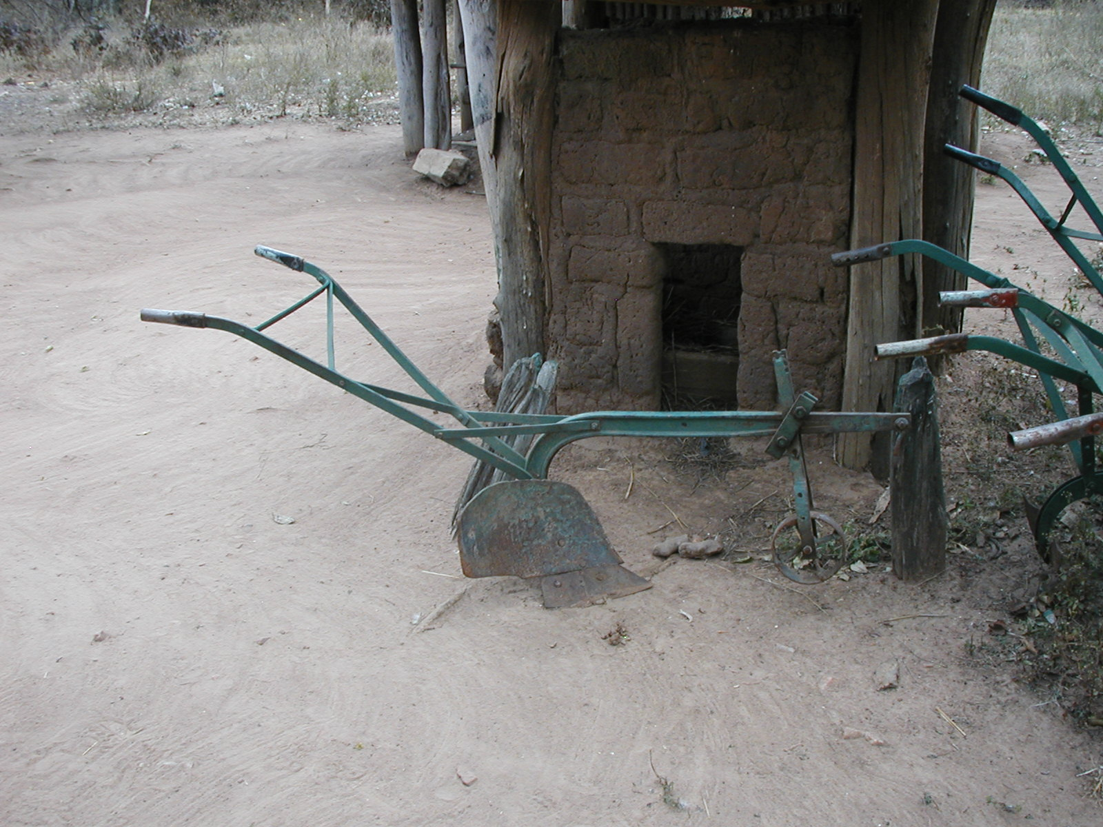 Picture of single-share, Ransome Victory plough.